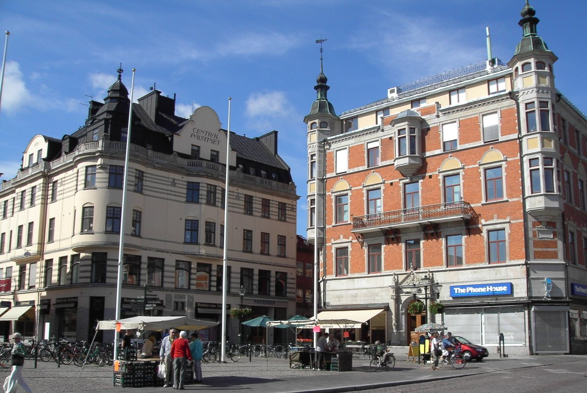 Central square, Linköping, Östergötland, Sweden